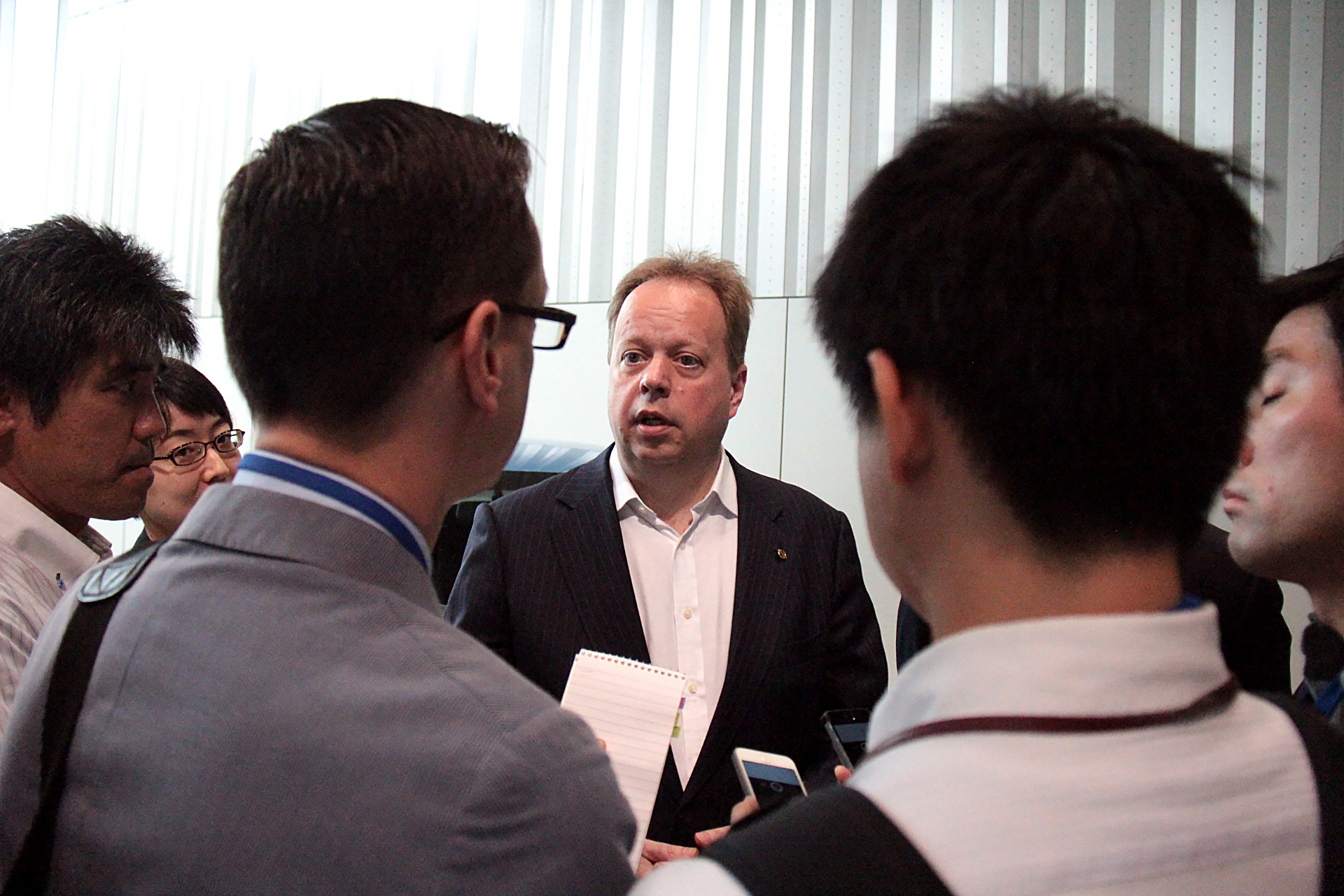 Andy Palmer, Chief Planning Officer and Executive Vice President of Nissan at launch of e-NV200 in Yokohama, 9 June 2014 - Picture by Bertel Schmitt